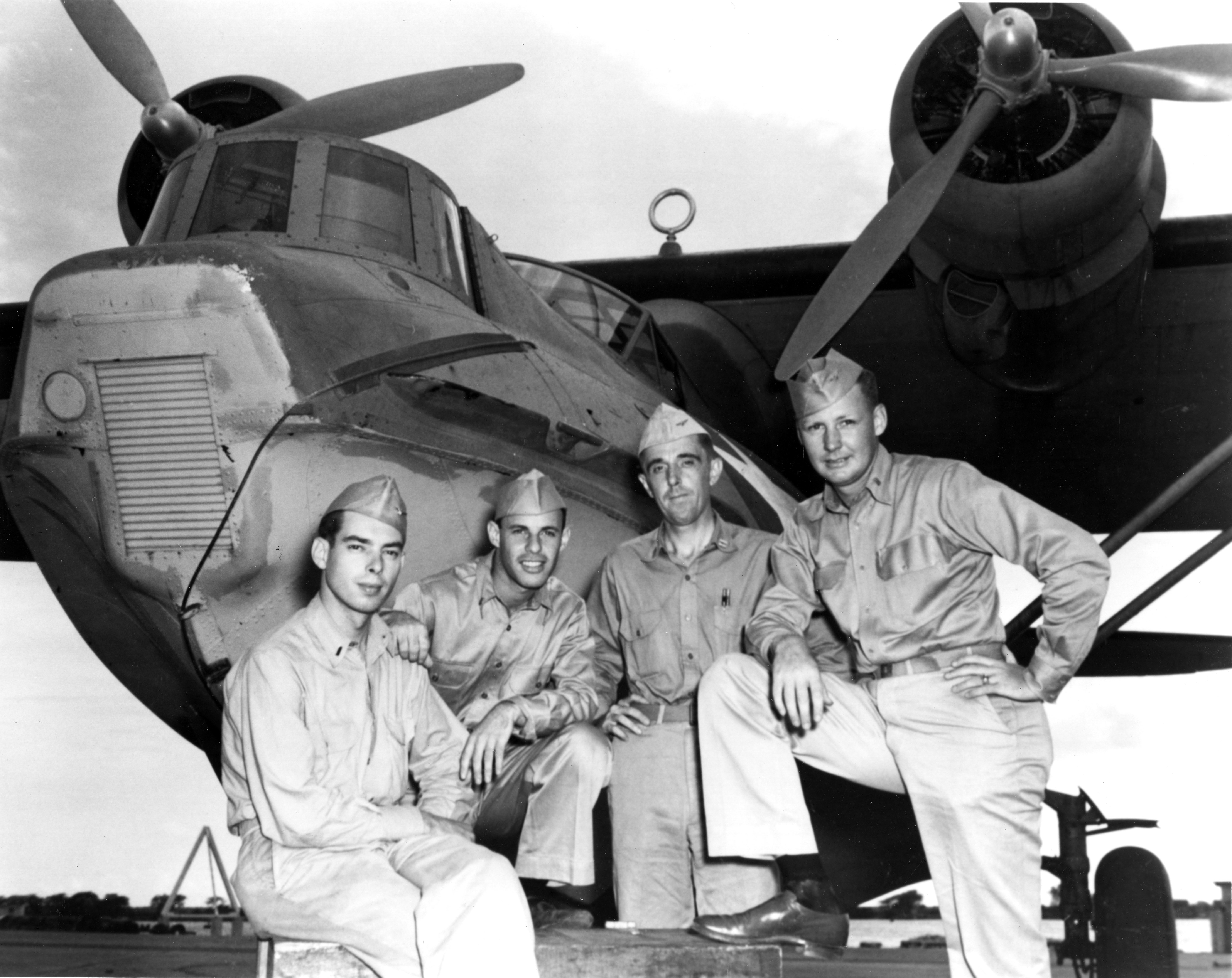 The U.S. Navy pilots of the four Consolidated PBY-5A Catalinas of Patrol Squadron 24 (VP-24) and VP-51 that flew the torpedo attack mission against the Japanese fleet's Midway Occupation Force during the night of 3-4 June 1942. Those present are (left to right): Lieutentant (Junior Grade) Douglas C. Davis, of VP-24; Ensign Allan Rothenberg, of VP-51; Lieutenant William L. Richards, Executive Officer of Patrol Squadron 44 (VP-44), who flew in a VP-24 aircraft on this mission; and Ensign Gaylord D. Propst, of VP-24. Richards hit the Japanese oil tanker Akebono Maru, flying PBY "24-P-12". This was the only successful air-launched torpedo attack by the U.S. during the entire Battle of Midway.